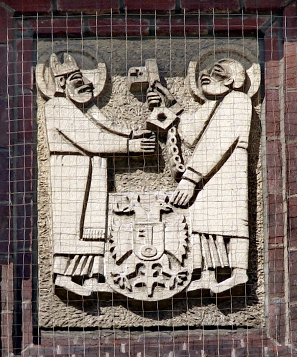 Relief (Dries Engelen, 1955) with coat of arms of Heer at the former town hall of Heer, Raadhuisplein, Heer-Maastricht, Netherlands. The relief shows Saint Peter (right) handing over the Key of Heaven to Saint Servatius.